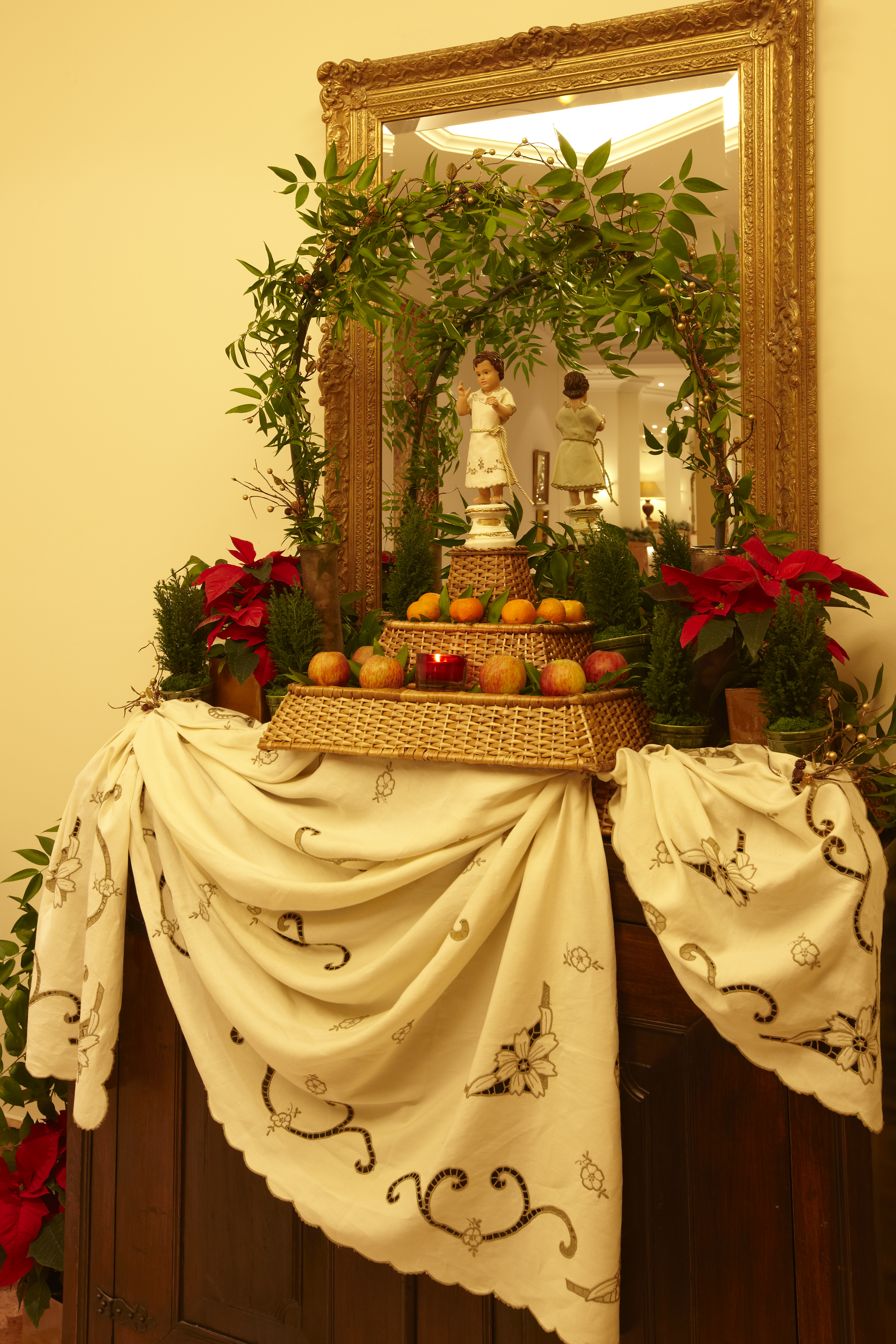 A traditional Nativity Scene from Madeira, Portugal.